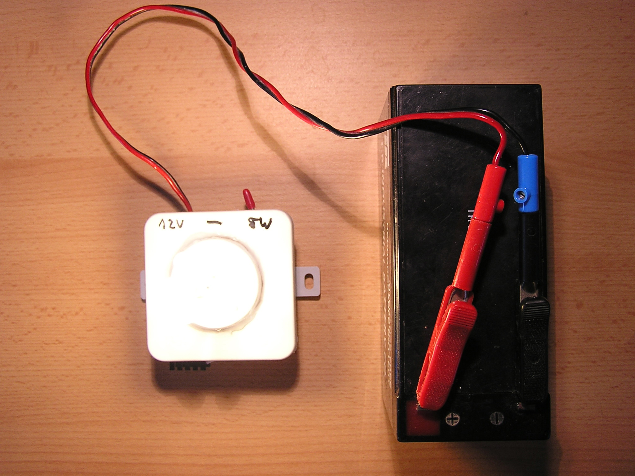 Self-made lamp (running). It consists of an electronical ballast for 12 Volts direct current from a lead-acid battery and a tube taken from a compact fluorescent lamp.